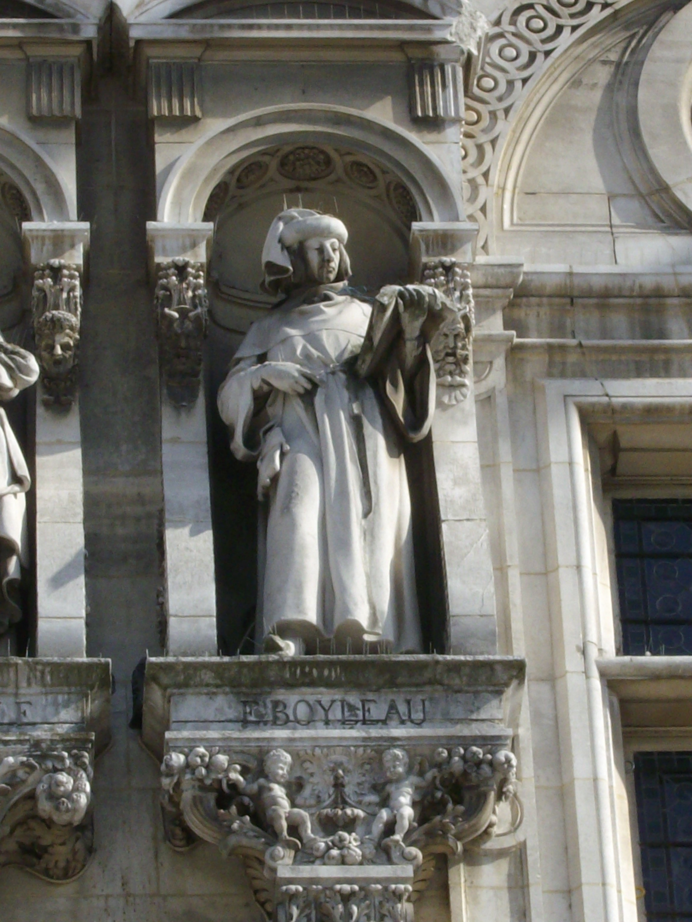 Statues of the City Hall in Paris, France